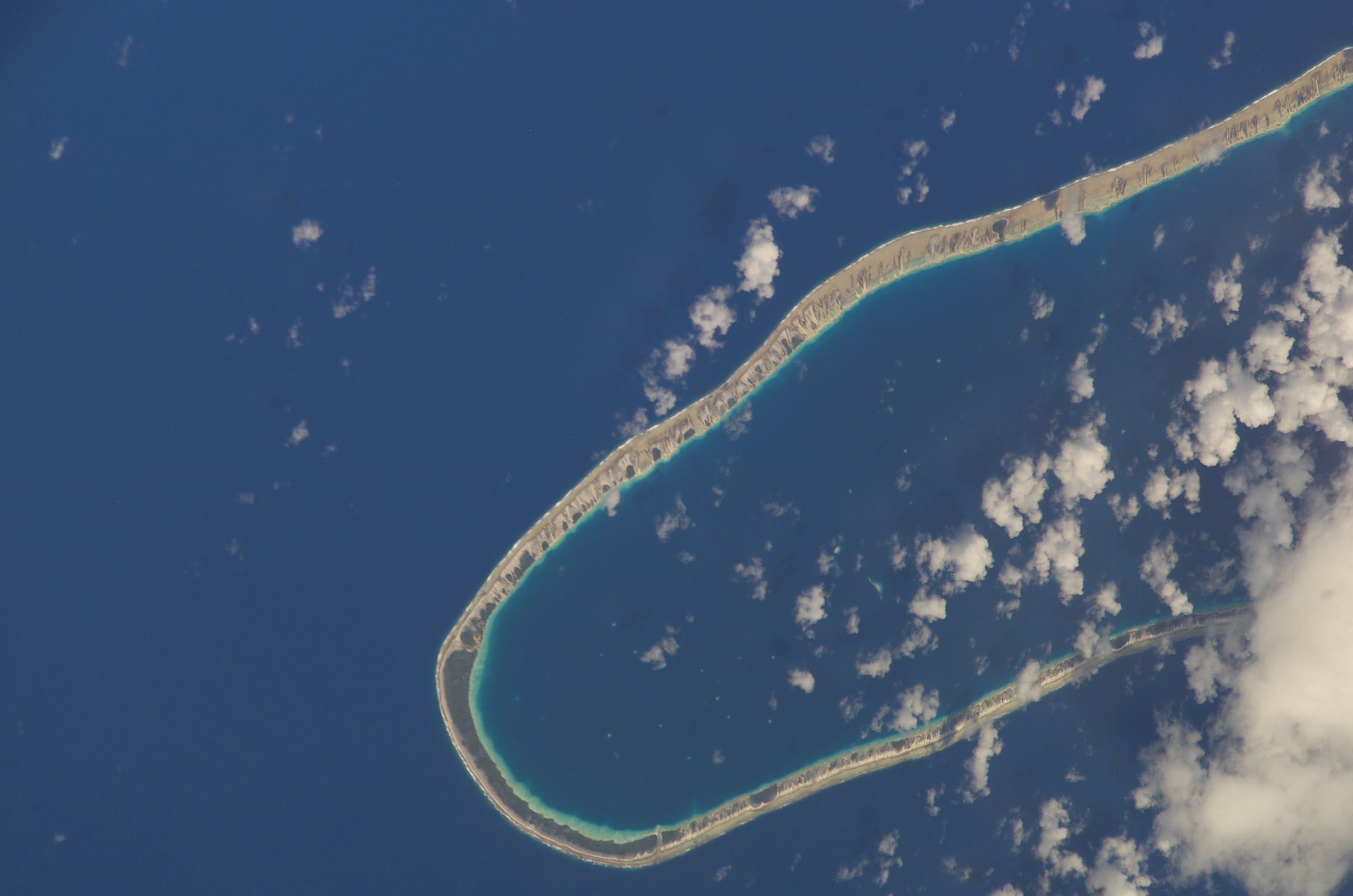 NASA Astronaut Image of Amanu Atoll(Tuamotu Archipelago, French Polynesia) in the Pacific Ocean